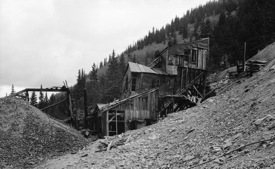 Mary Murphy Mining Complex, Mine Shaft House, Iron City (historical), Chaffee County, CO